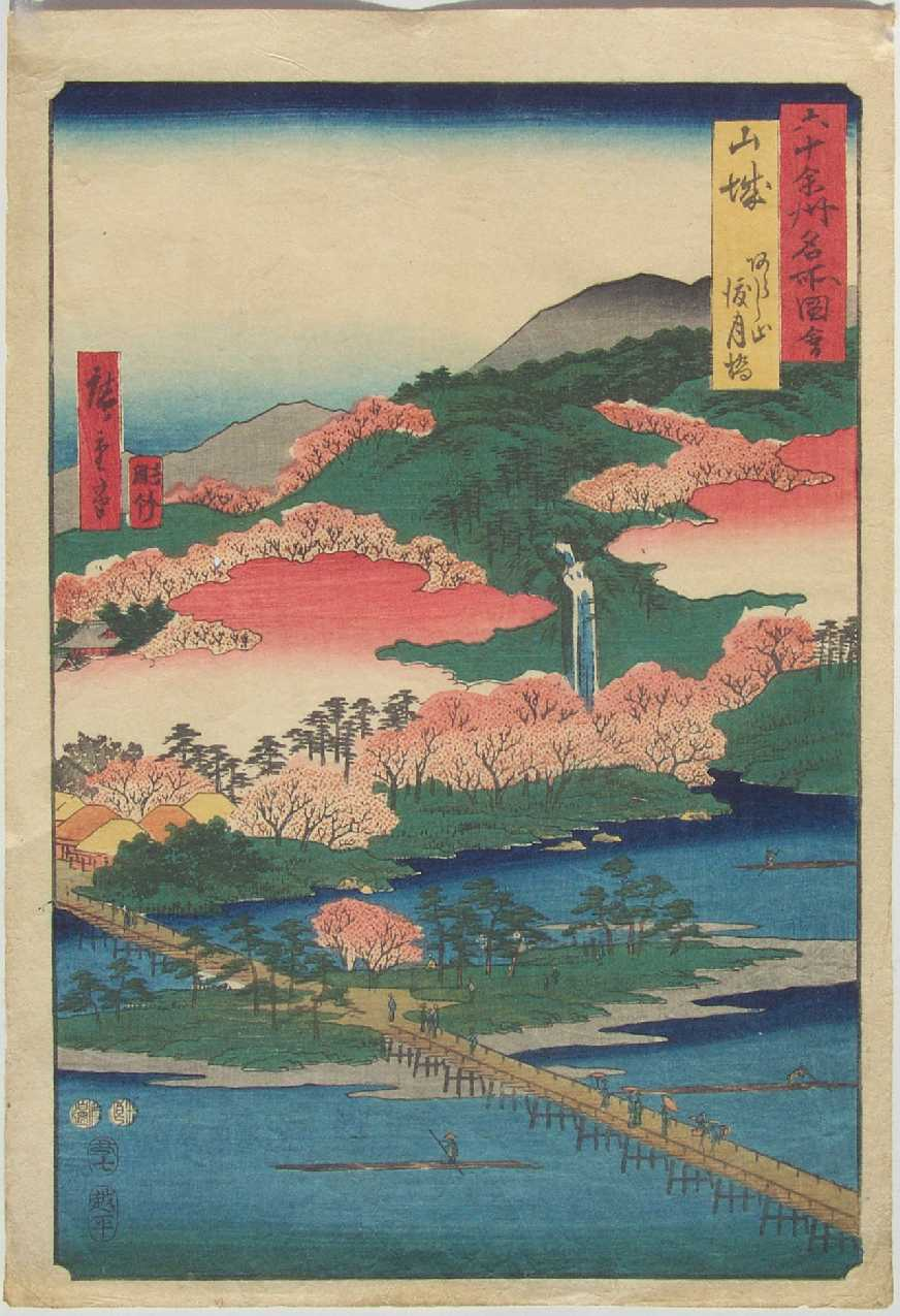 Yamashiro Arashiyama Togetsukyō of the Famous Scenes of the Sixty States.